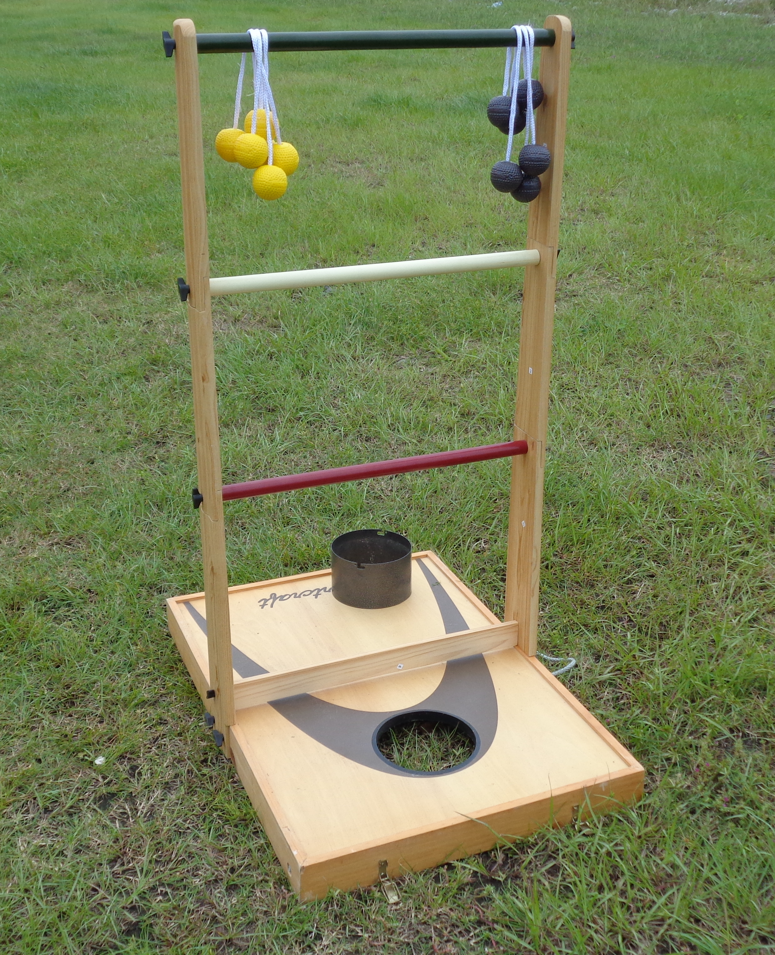 Ladder Golf, Homerville